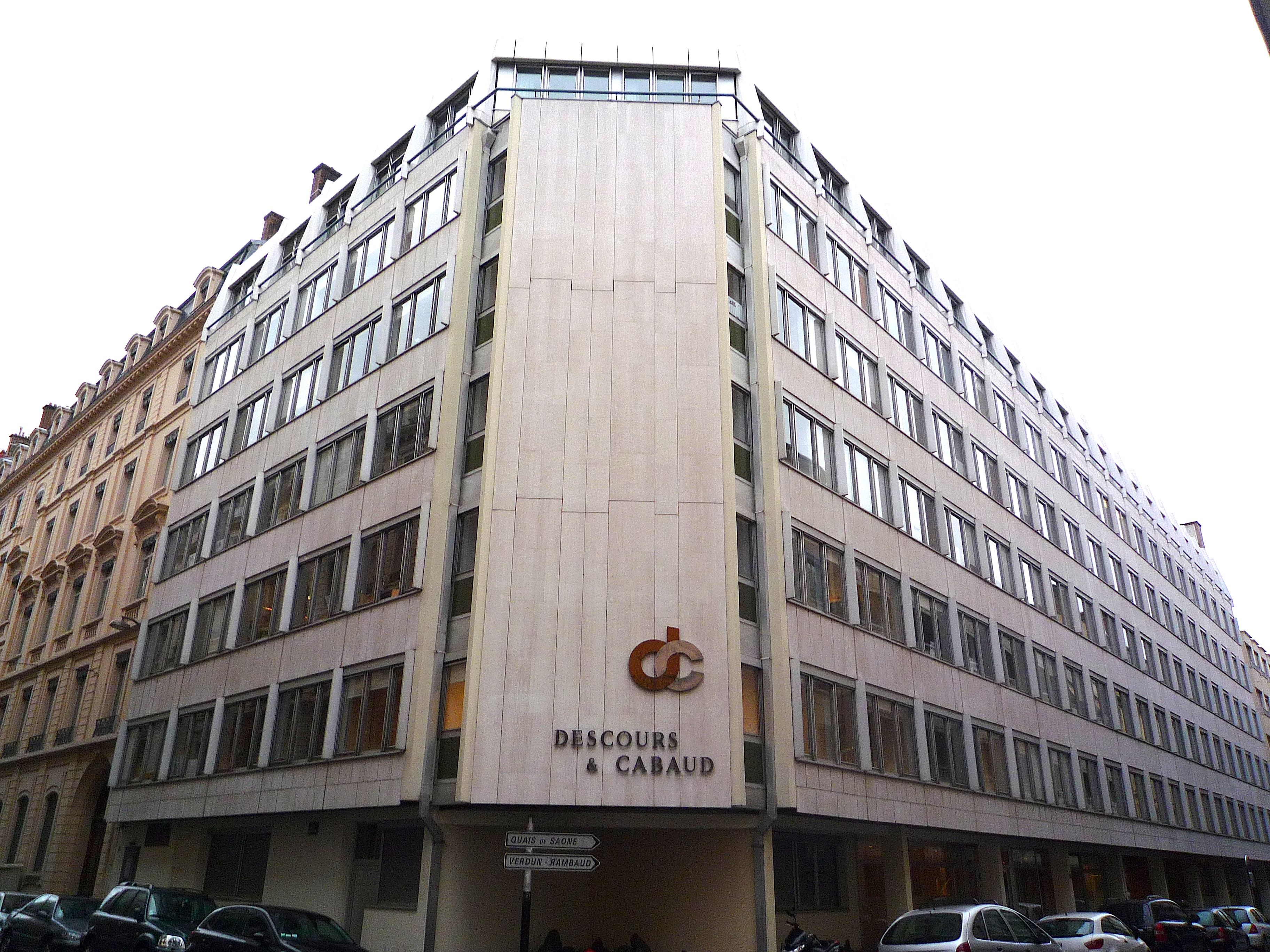 Headquarters of the Descours & Cabaud Group (Sogedesca) in Lyon (France) - December 2012